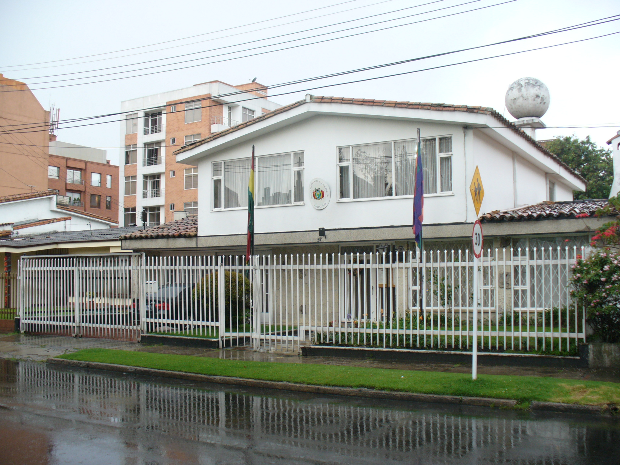 Bolivian embassy in Bogota.